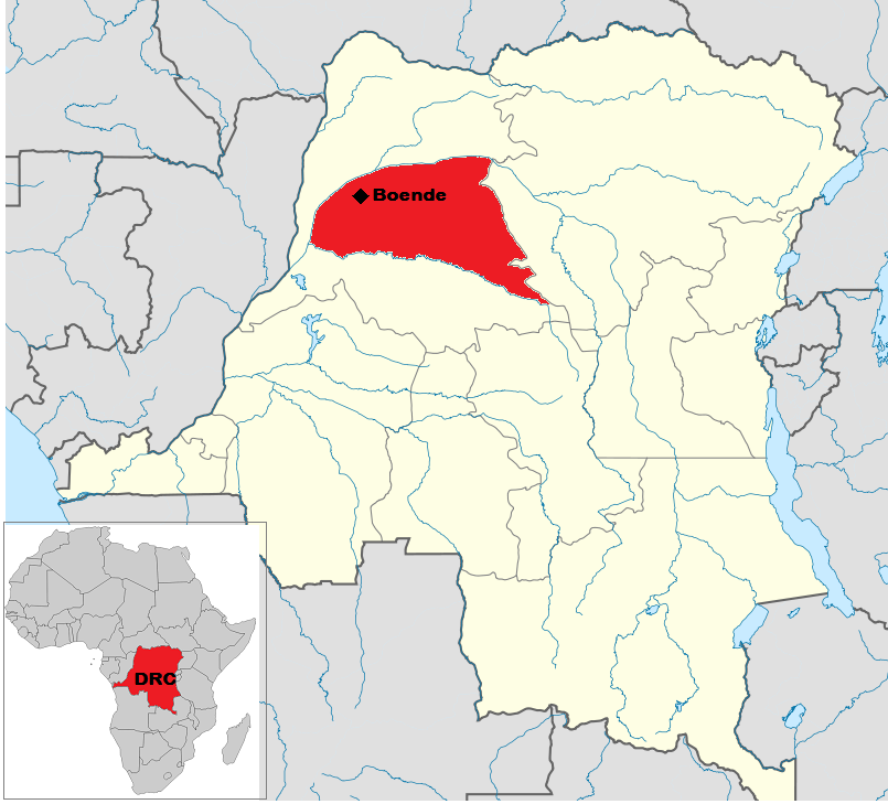 Ebola Areas in the Democratic Republic of Congo. Original source file from wikimedia